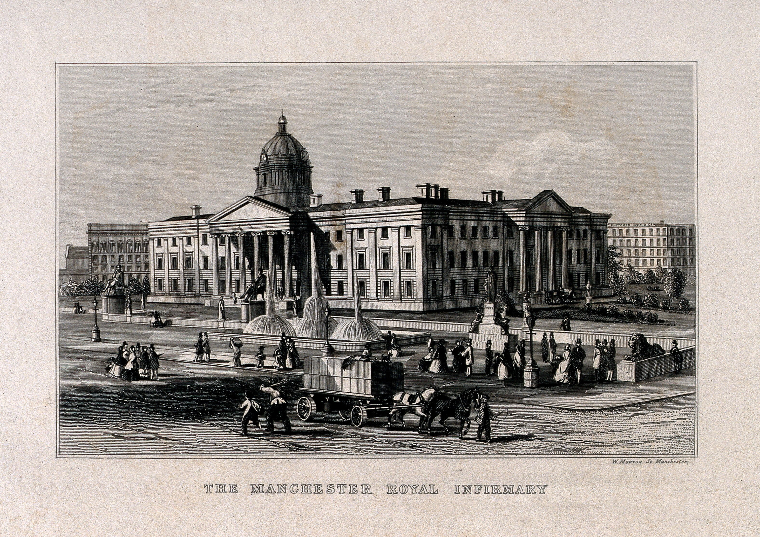 Manchester Royal Infirmary, Manchester, England. Line engraving by W. Morton. Iconographic Collections Keywords: The Royal Infirmary (Manchester); William Morton